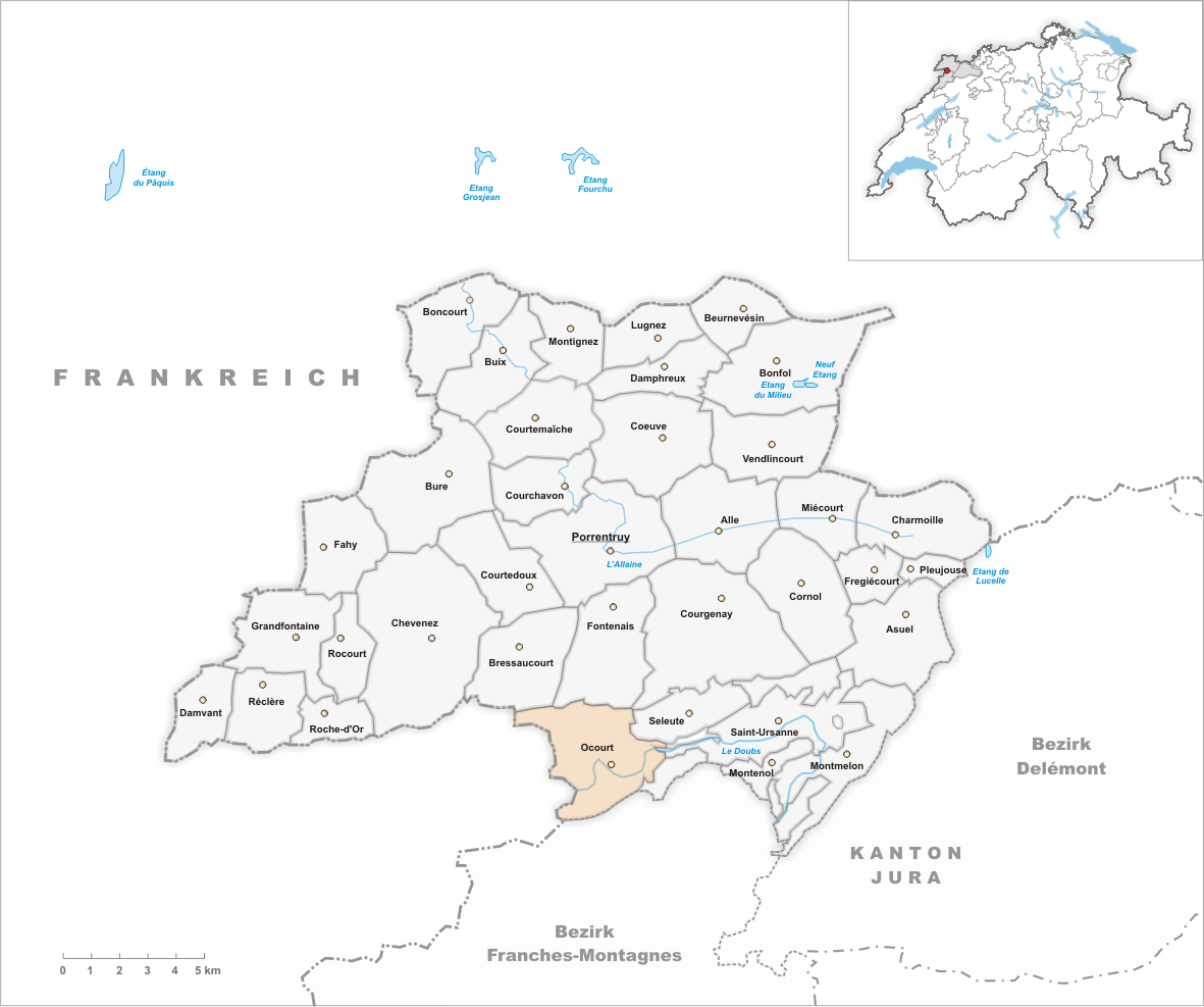 Municipality Ocourt